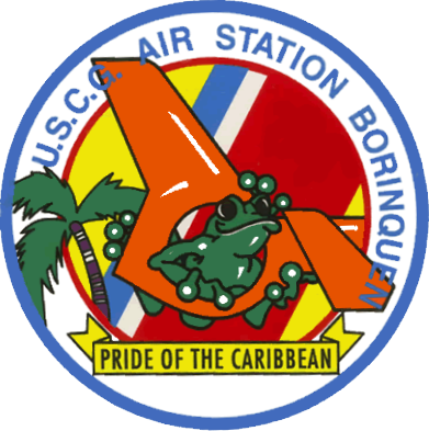 AIRSTA Borinquen unit patch